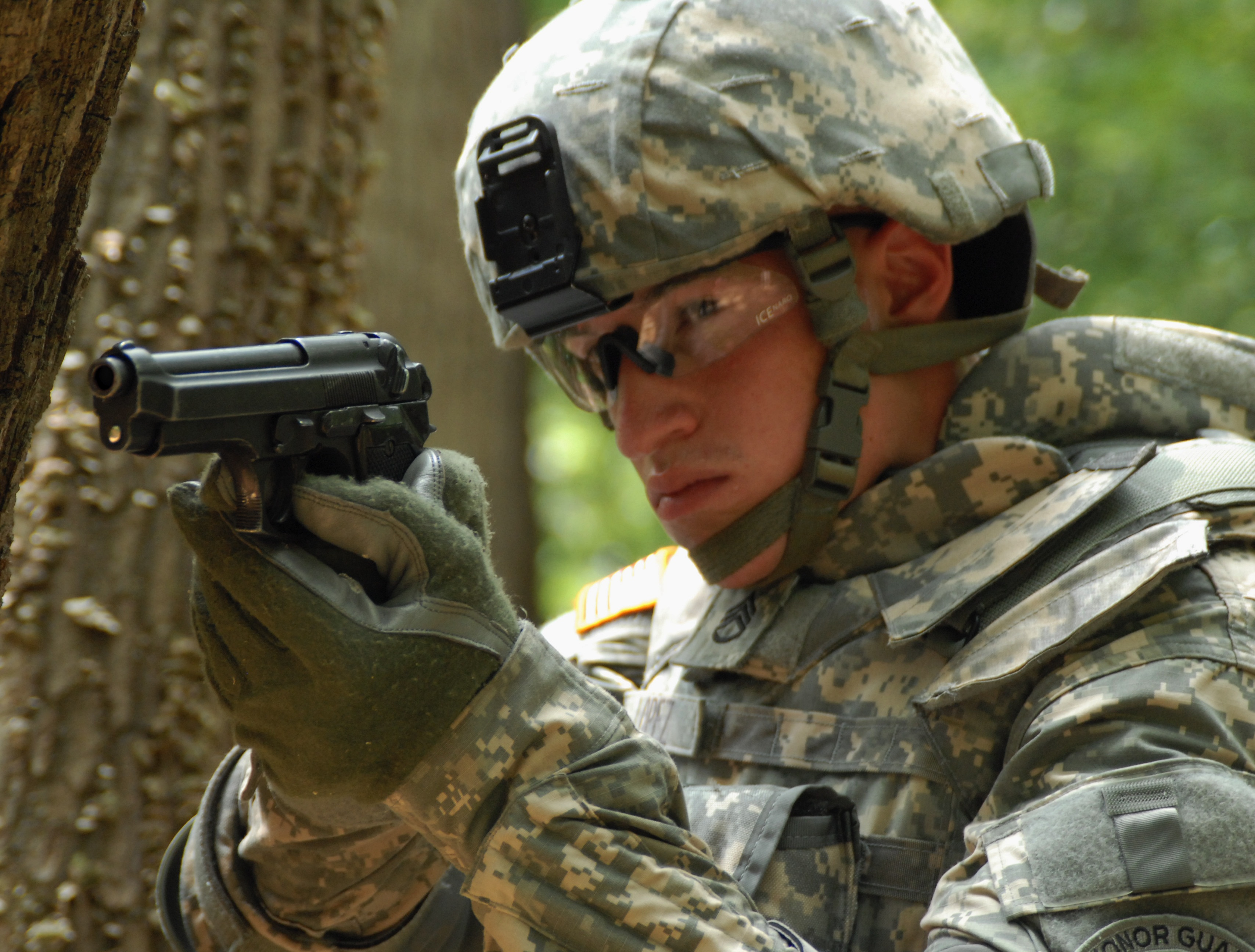 M9 Pistol combat demonstration in woods